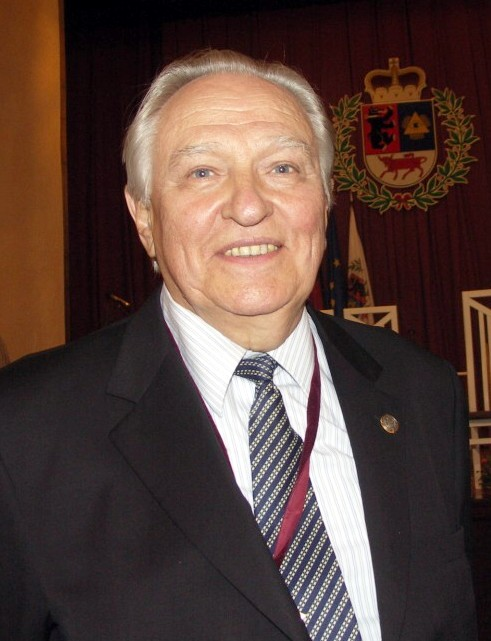 Musician, conductor Saulius Sondeckis, LithuaniaLietuvių: Dirigentas, Šiaulių garbės pilietis Saulius Sondeckis, Lietuva